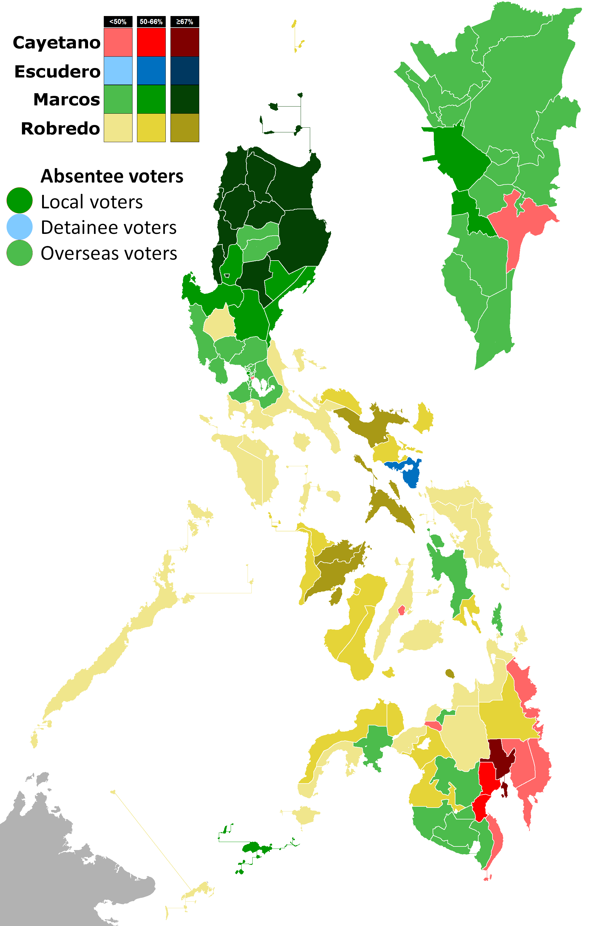 Result of the 2016 Philippine vice presidential election per province and city.